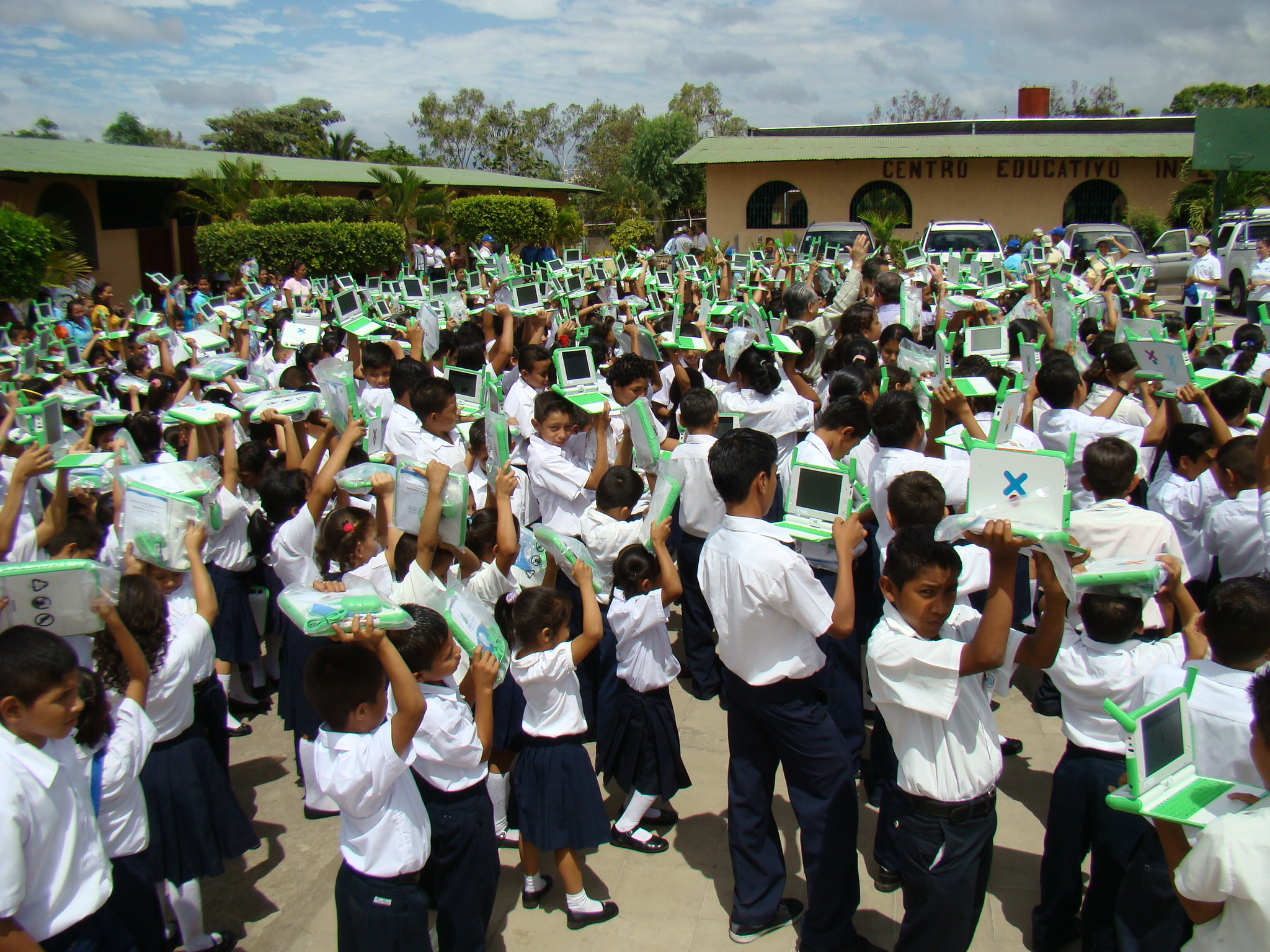 One Laptop per Child, Fuente de Vida, Juigalpa, Nicaragua